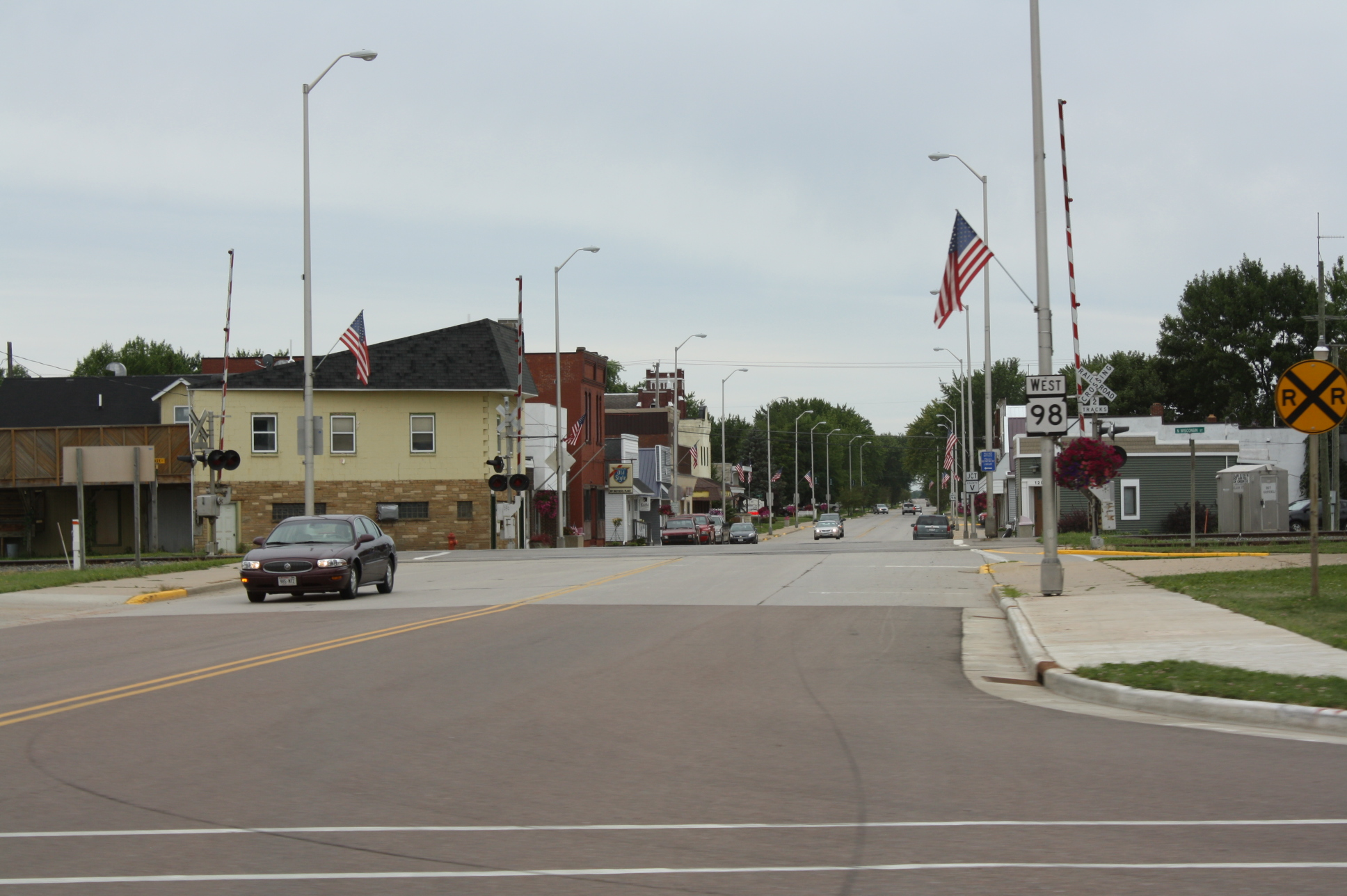 Looking west at the eastern terminus of Wisconsin Highway 98 in downtown Spencer, Wisconsin.